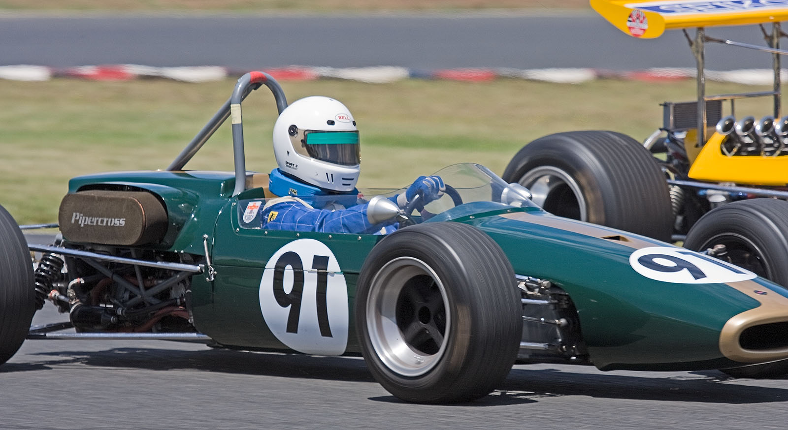 Tasman Revival 2008, Eastern Creek, Australia. IMG_4751